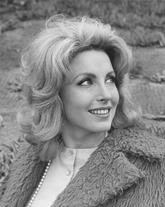 Actress Laura Devon in a publicity photograph for the 1960's television series The Lieutenant (Season 1, Episode 5 - A Very Private Affair)